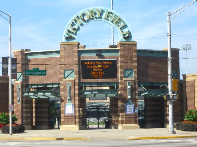 01:41, 22 August 2006 . . Nick81aku . . 640×480 (87,751 bytes) (Nick Juhasz created)